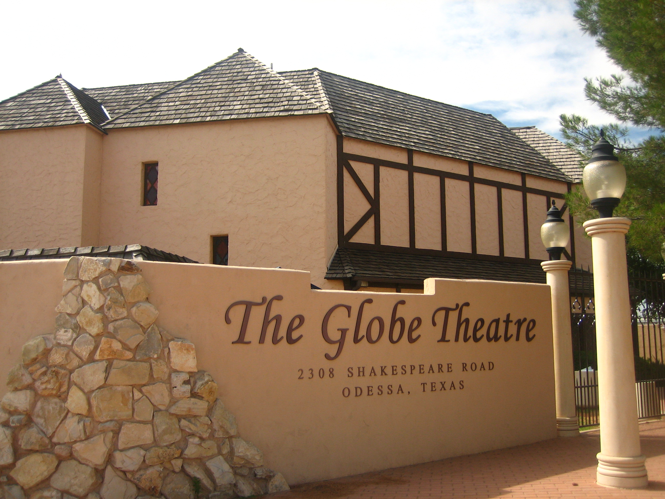 I took photo on July 10, 2008.Billy Hathorn (talk) 03:44, 27 July 2008 (UTC)